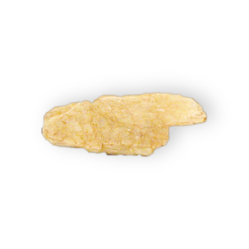 These mineral images are free to use how you wish.